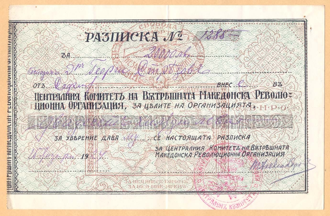 Receit of the IMRO's Central Committee for 20 000 levs recieved from Georgi Strezov, signed by Todor Alexandrov